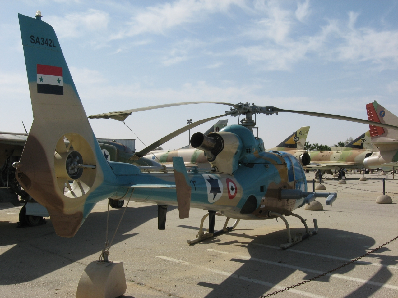 Former Syrian Air Force Gazelle in the Israeli Air Force Museum in Hatzerim